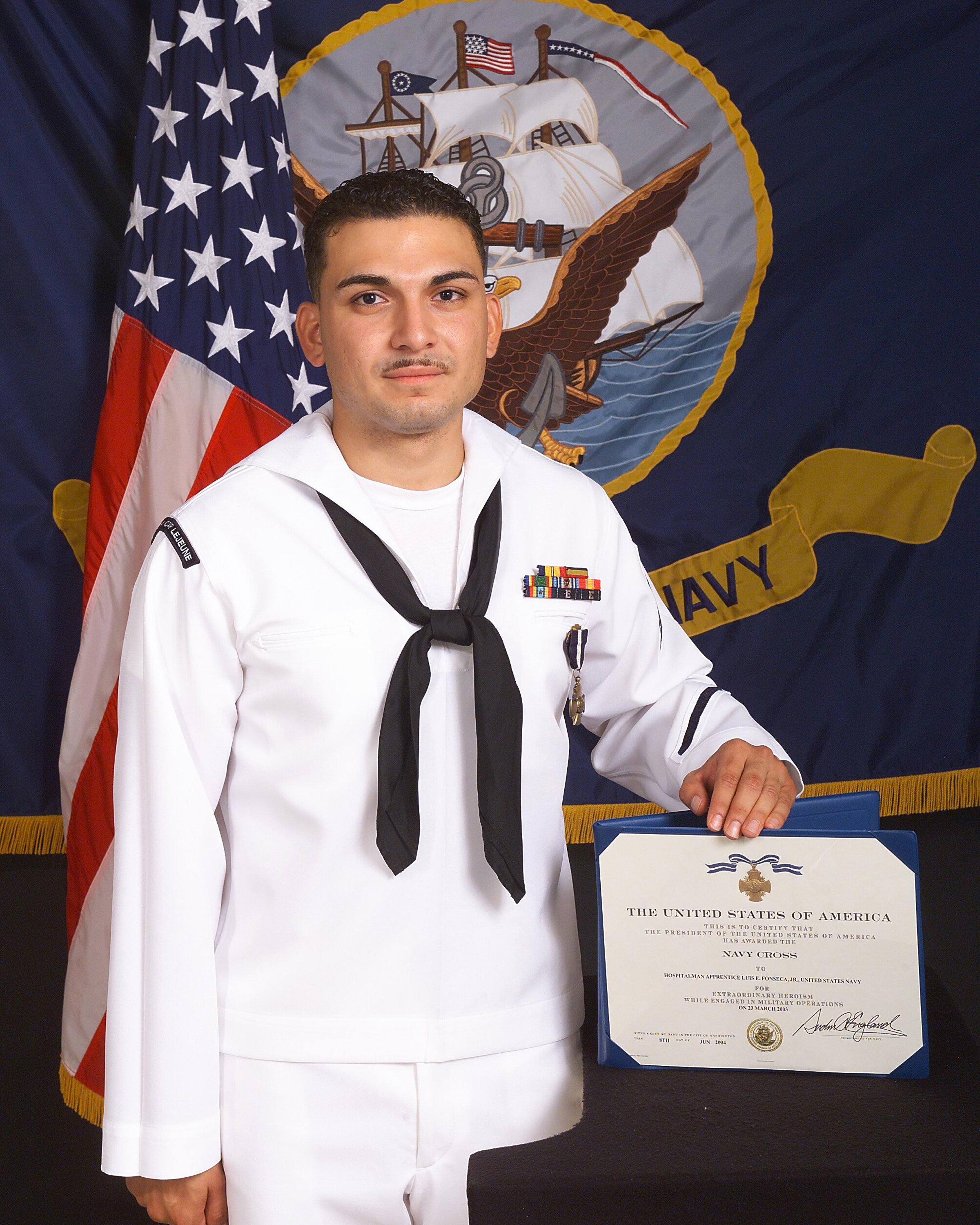 Camp Lejeune, N.C. (Aug. 11, 2004) – Hospitalman Apprentice Luis E. Fonseca, Jr., stands with his Navy Cross citation that was presented to him by the Secretary of the Navy Gordon R. England, for heroism during the battle of An Nasiriyah, Iraq, in March 2003. Under attack and without concern of his own safety, Hospitalman Apprentice Fonseca braved small arms, machine gun, and intense rocket-propelled grenade fire to evacuate wounded Marines from a burning amphibious assault vehicle. He stabilized two casualties with lower limb amputations with tourniquets and administered morphine, while organizing the evacuation of four wounded Marines, again exposing himself to enemy fire to treat wounded Marines along an offensive perimeter. His timely and effective care saved the lives of numerous casualties. U.S. Navy photo by Hospital Corpsman 2nd Class Wayne Nelms (RELEASED)